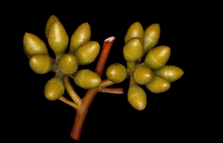 Flower buds of Eucalyptus mannensis subsp. mannensis